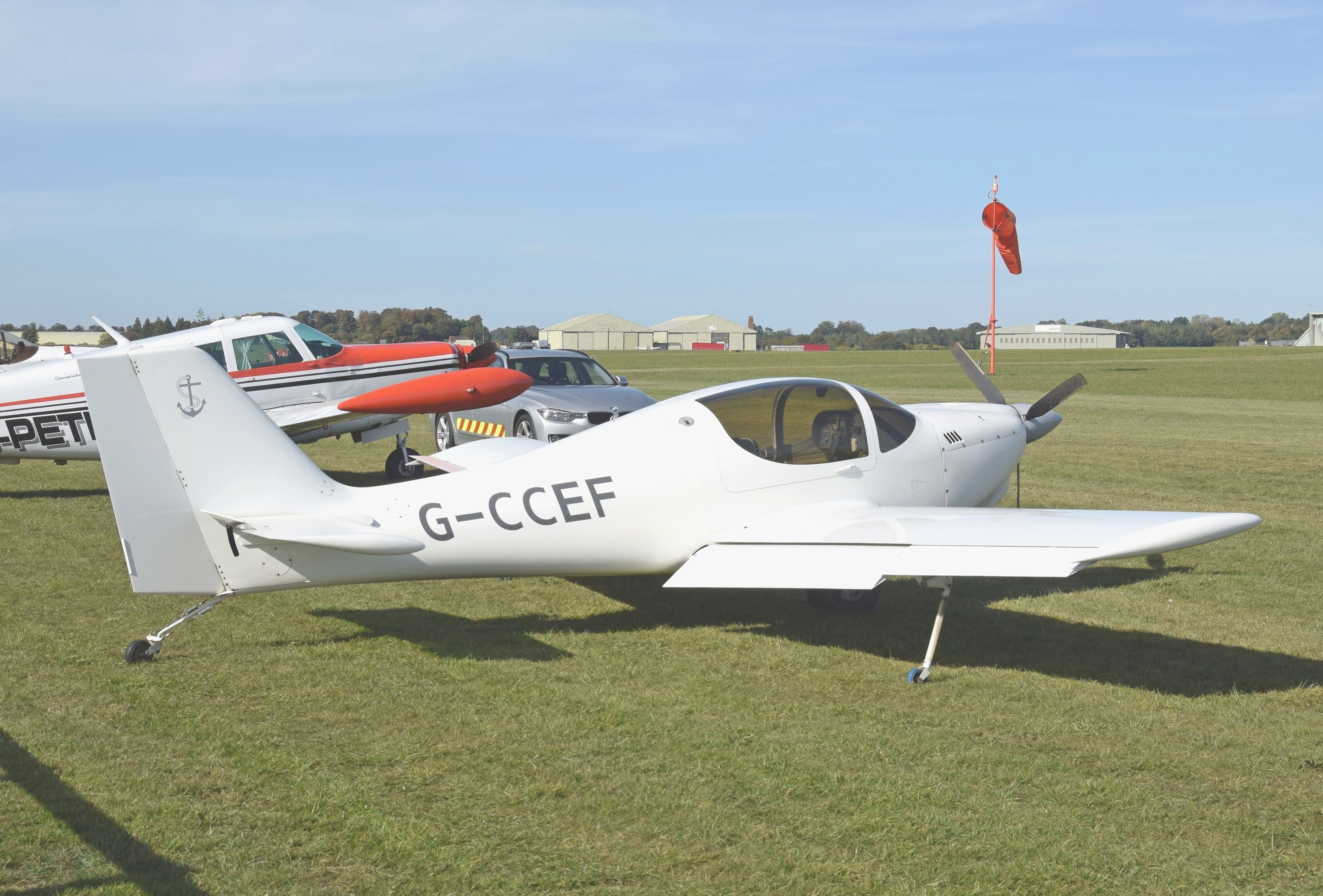 Europa Classic Monowheel home-built aircraft (G-CCEF) at the 2018 Cotswold Airport Revival Festival, Gloucestershire, England. Built 2004. Has a single retractable wheel in the centre of the fuselage and retractable outriggers on each wing.